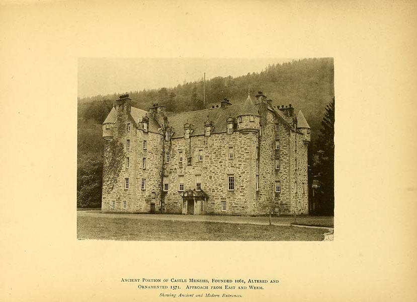 Ancient Portion of Castle Menzies, Founded 1061, Altered and Ornamented 1571, Approach from East and Weem Showing Ancient and Modern Entrances